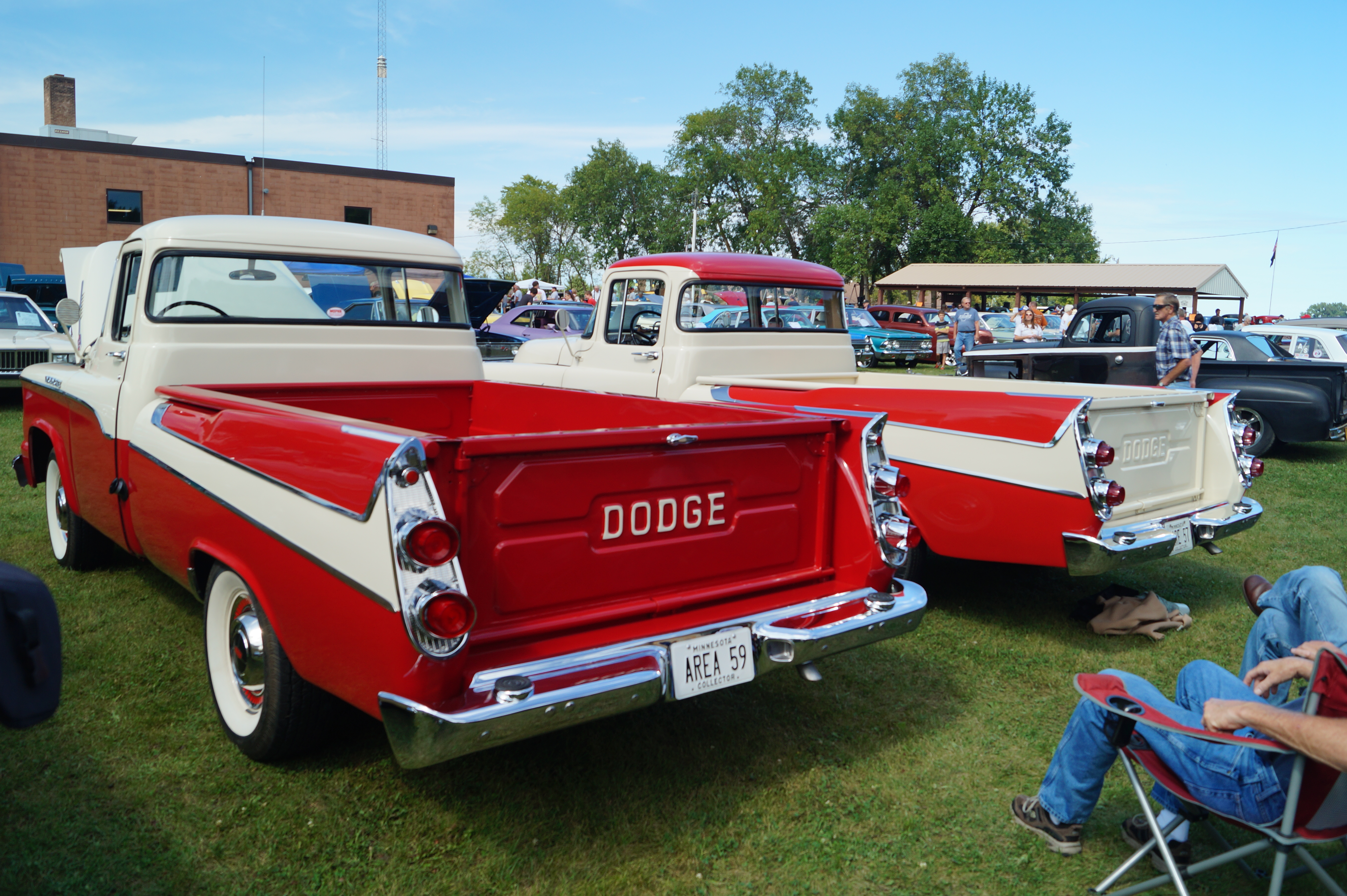 7th Annual Trolls Classic Car Show Hosted by: Sunburg Trolls Car Club Club Website: Labor Day, September 7, 2015 Sunburg Community Center Sunburg, Minnesota Click here for more car pictures at my Flickr site.